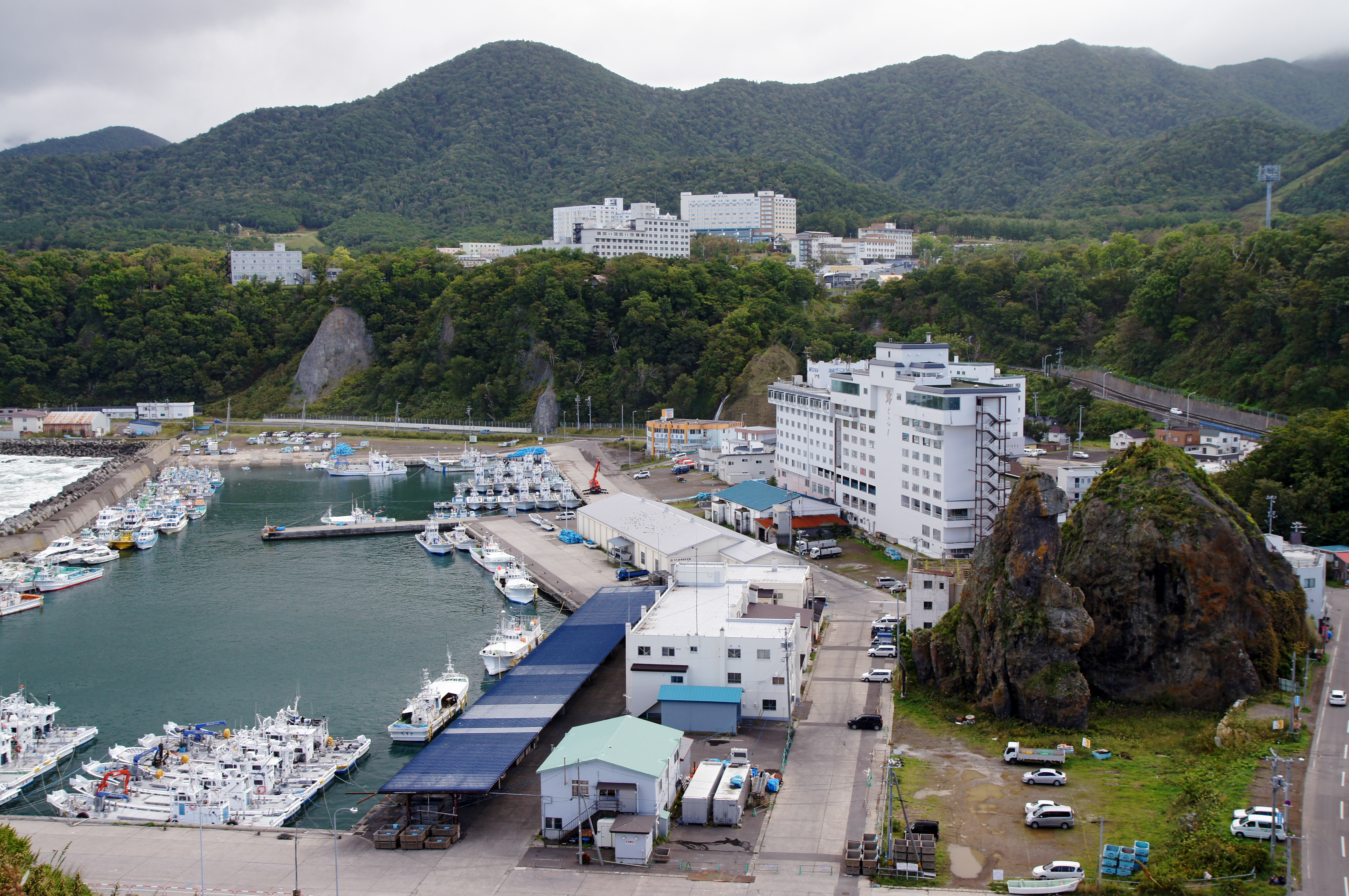 Utoro Port and Utoro Onsen resort in Shari, Hokkaido prefecture, Japan